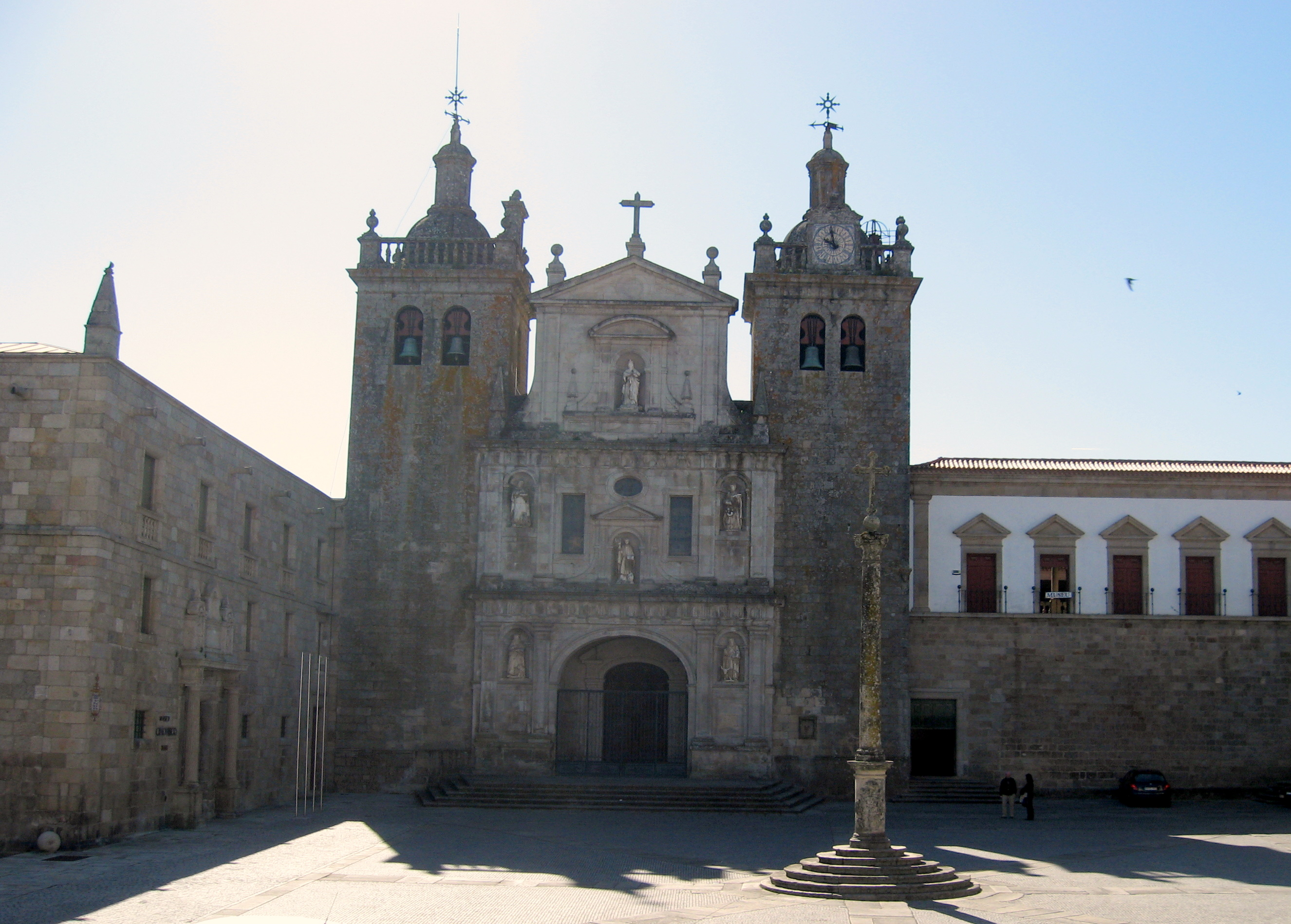 Sé de Viseu (Portugal)